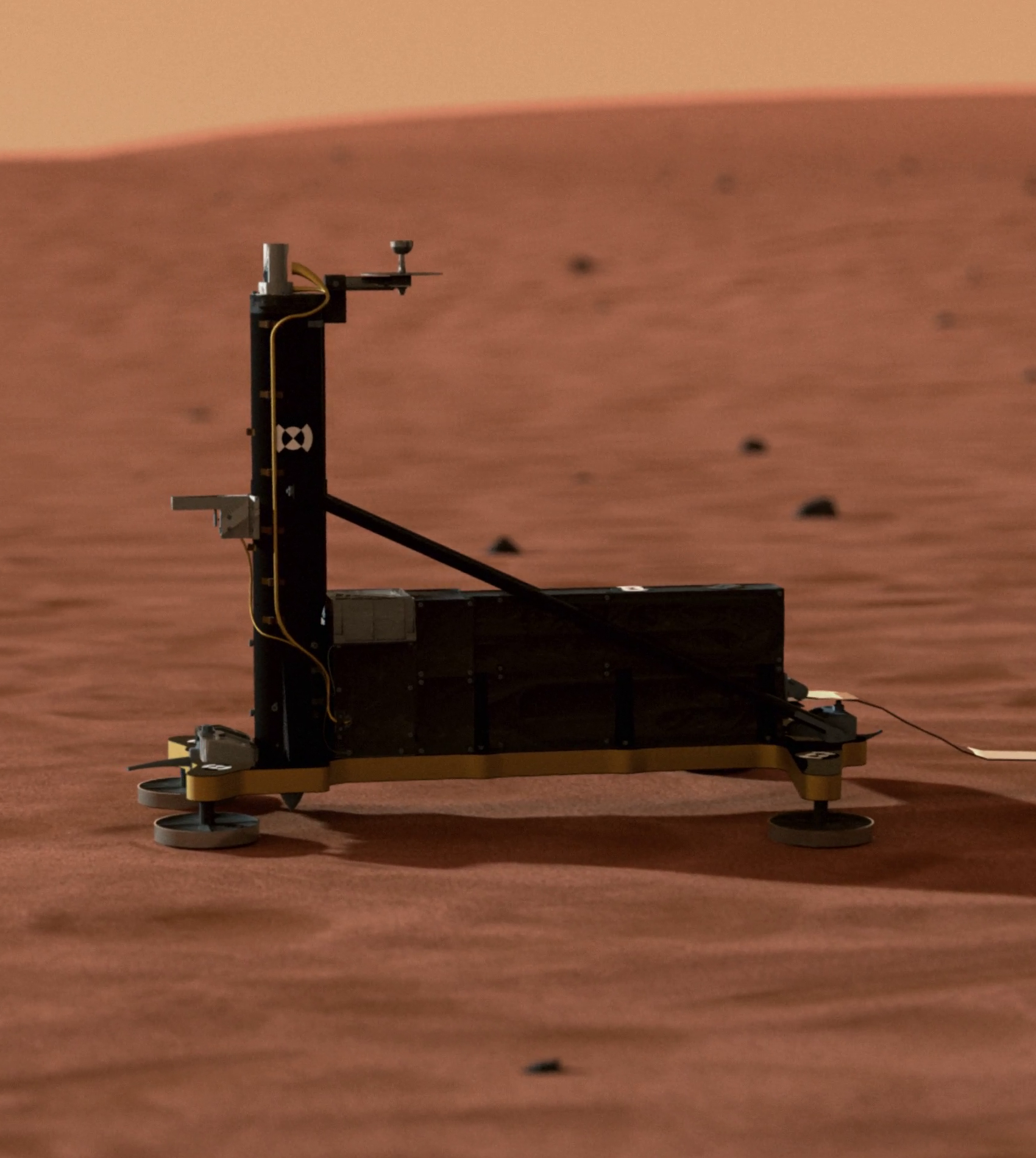 Artist's rendering of Insight's Heat Flow and Physical Properties Package (HP3) instrument. Developed at the DLR to measure the heat flow fromt the planet's interior and its thermal state.